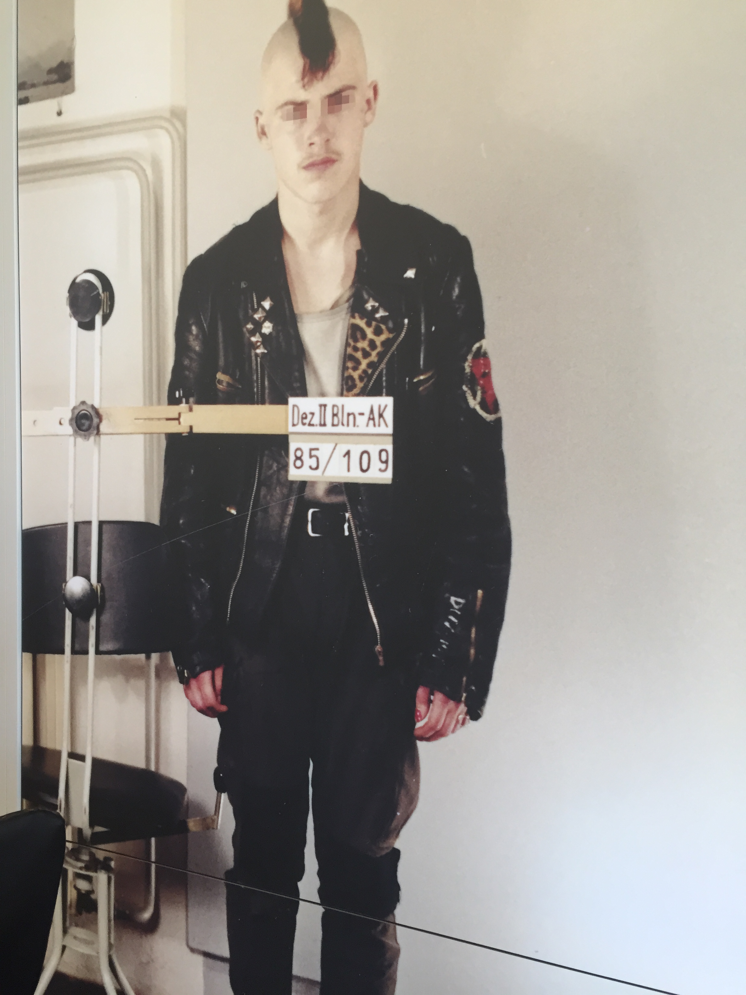 Image of a photograph of a young punk arrested and photographed by the Stasi. On display in the Stasi Museum, Berlin.